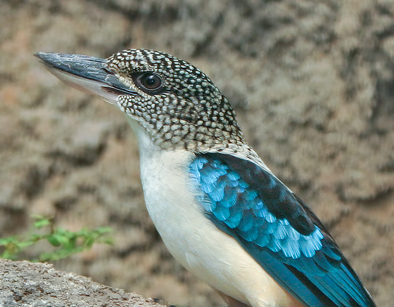 Spangled Kookaburra, also called Aru Giant Kingfisher. Shot at the Jurong Bird Park, Singapore